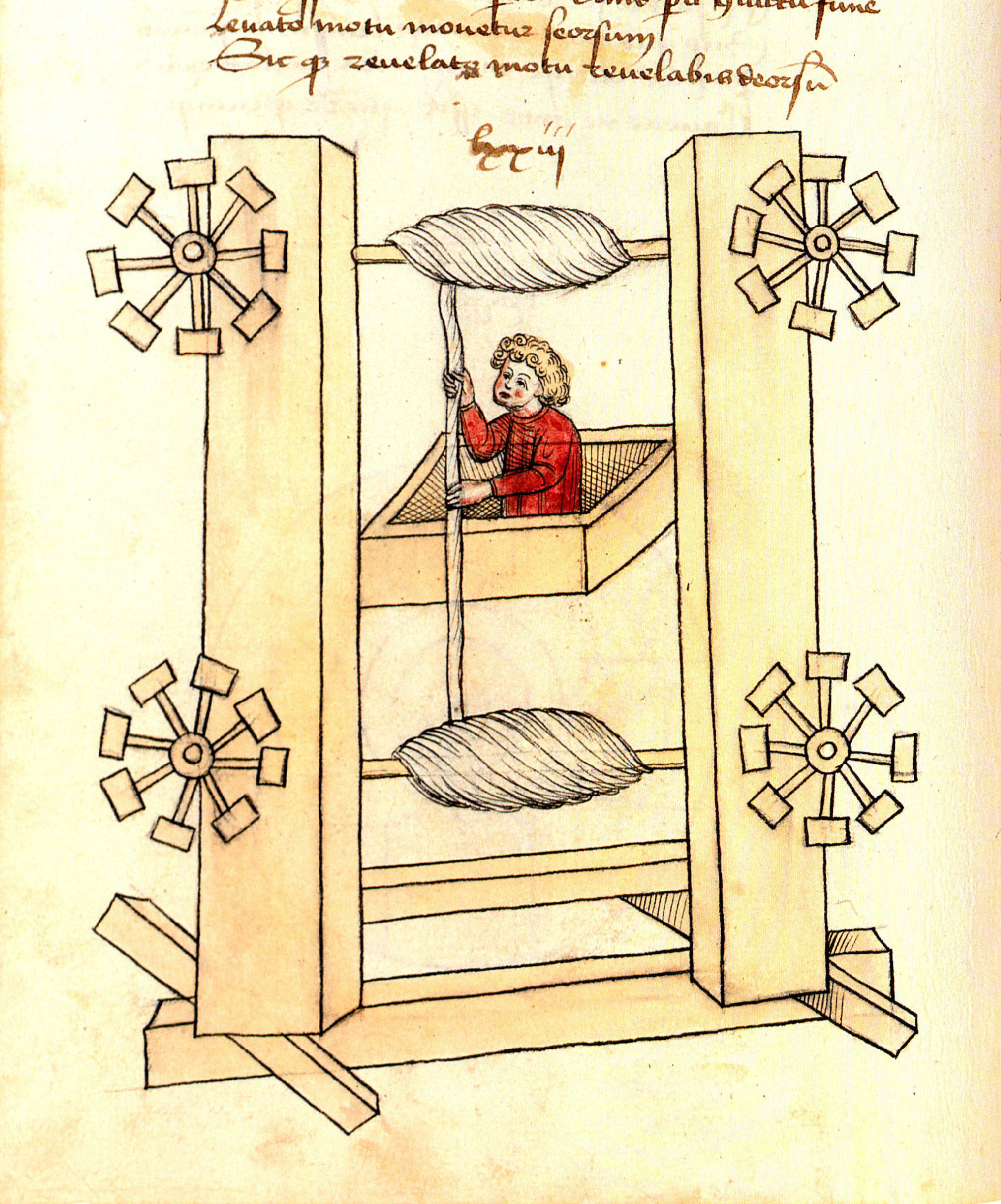 Elevator